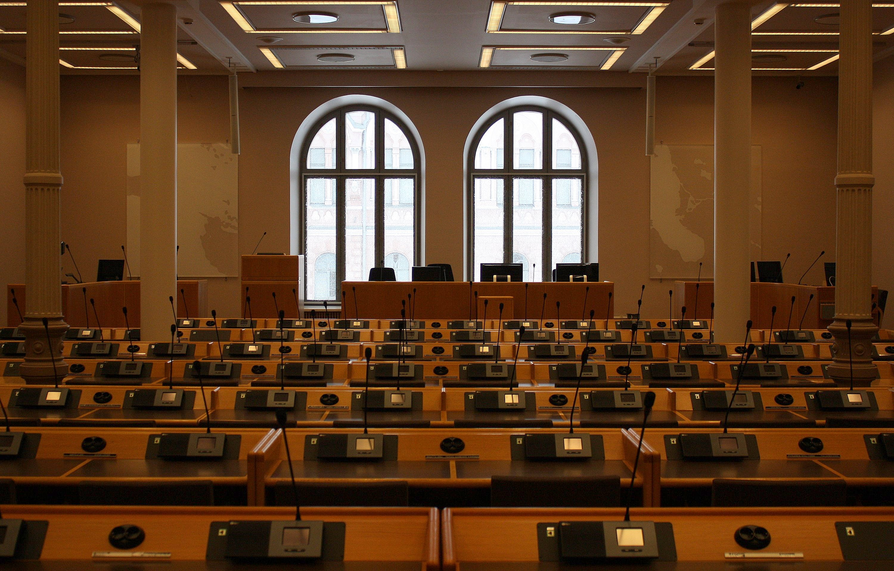 Oulu City Council Chamber in Oulu City Hall.